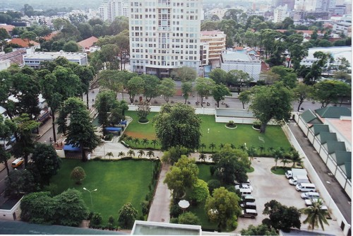 Site of the former US Embassy, Saigon, now used as a parking and recreation area for the US Consulate, Ho Chi Minh City